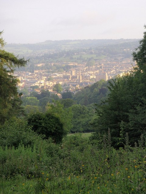 View from Bath Skyline Walk A morning shot; these slopes of Claverton Down are west-facing, but the sun is on the city centre.